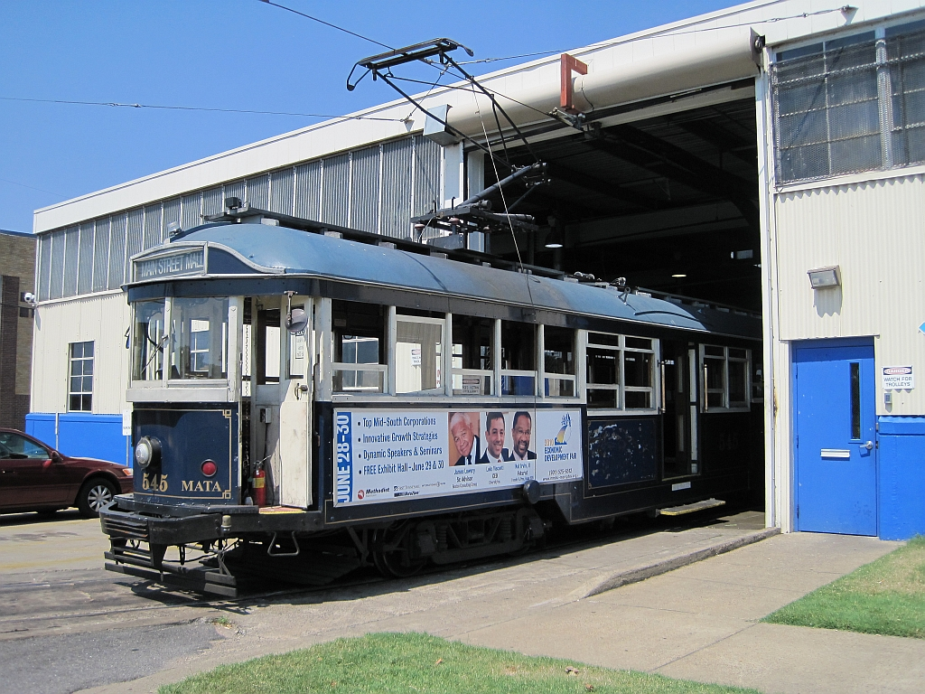 Uptown Memphis, Tennessee. Main Street Trolley carhouse (depot) and ex-Melbourne car 545 of the Memphis Area Transportation Authority (MATA) Trolley.